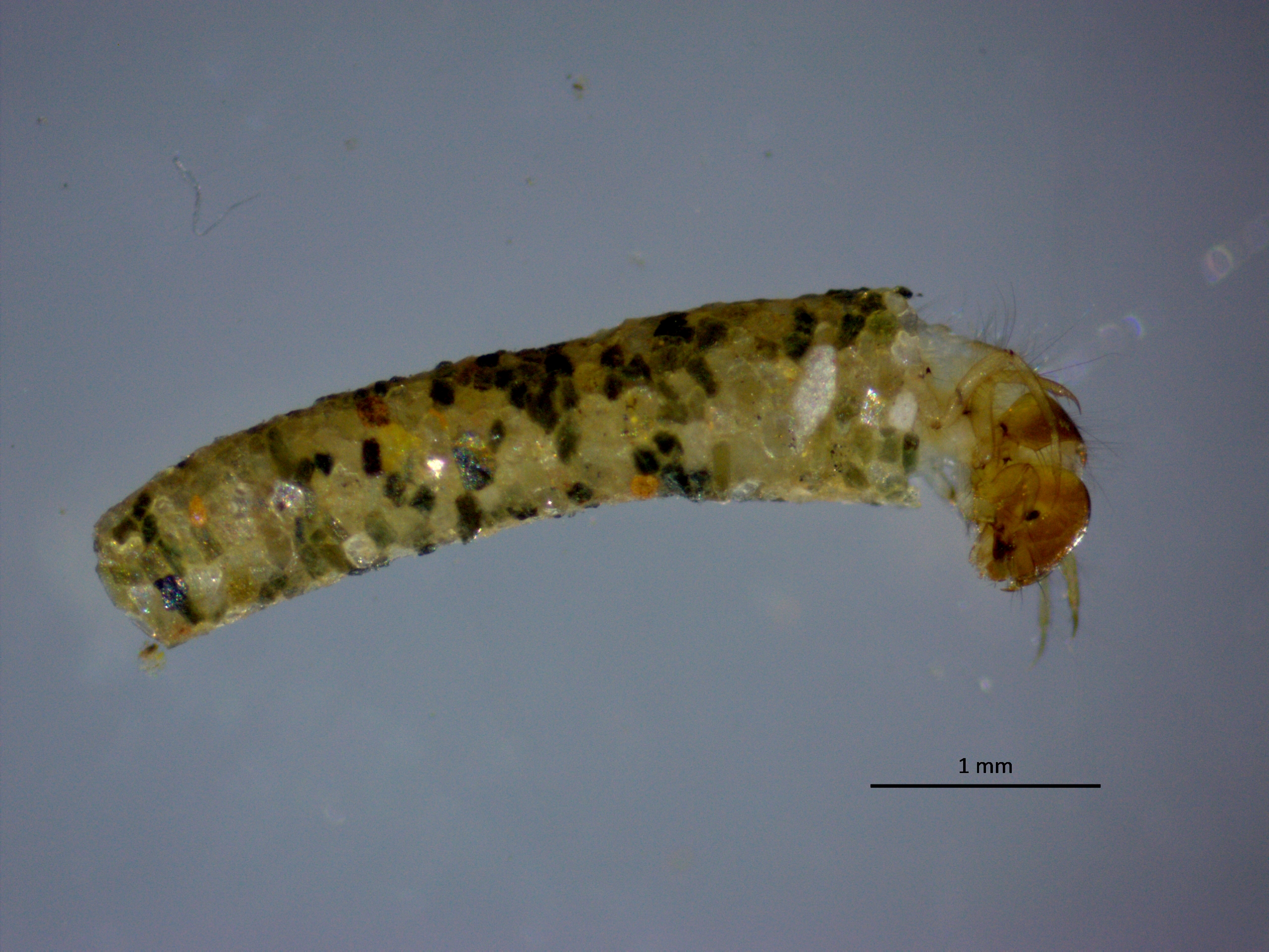 Odontocerum larva from Bresnička river (SE Serbia). Српски (ћирилица): Ларва Odontocerum из Бресничке реке (општина Босилеград, ЈИ Србија).